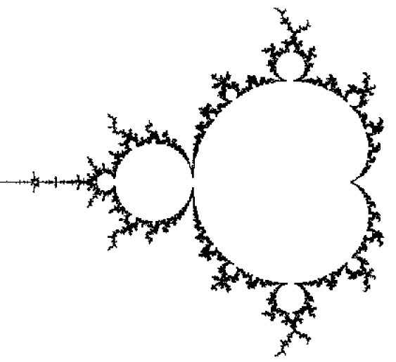 Boundary of the Mandelbrot set.